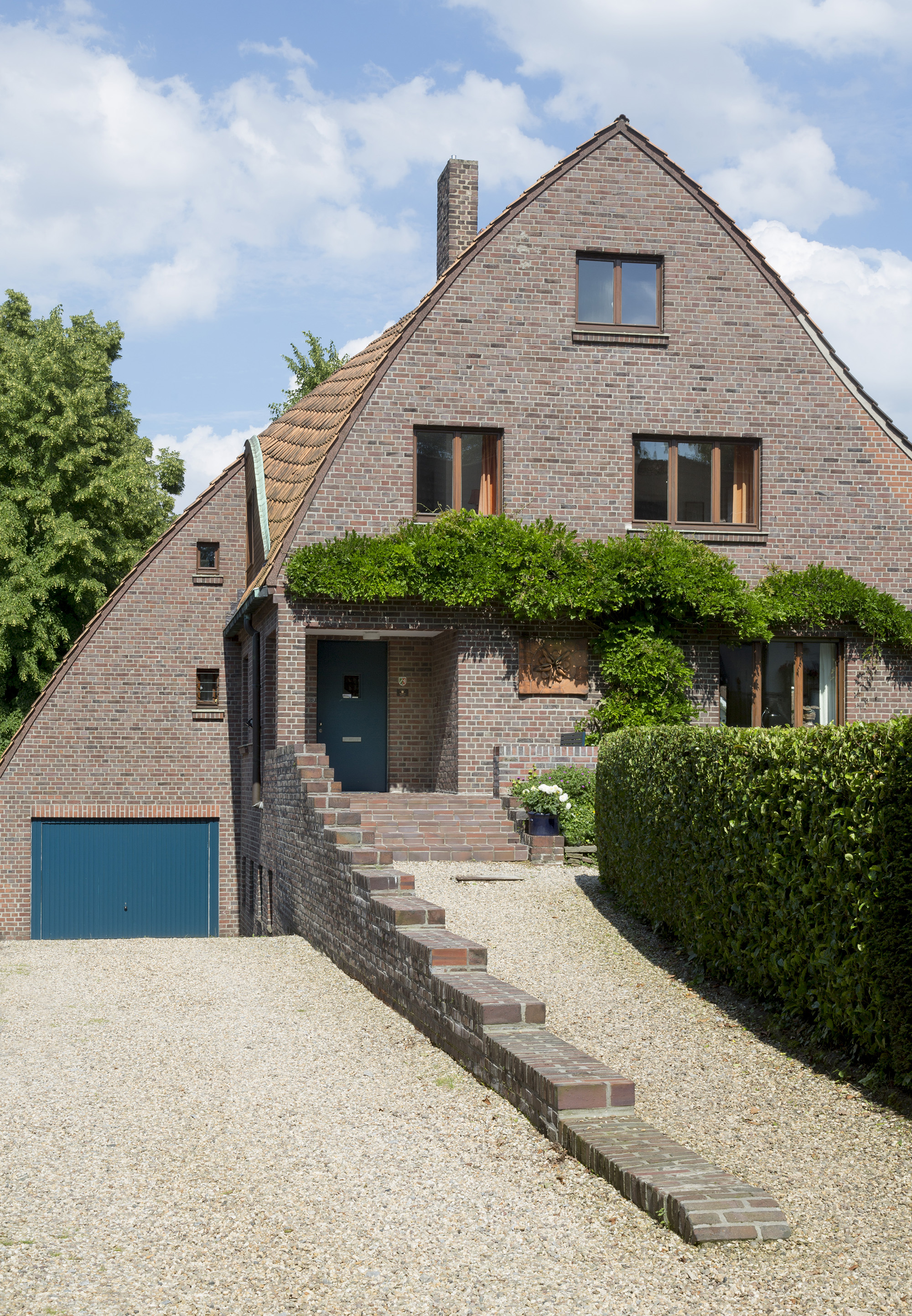 ehemaliges Haus Steinert, erbaut 1929 von Hans Poelzig, Nordwestseite nach Wiederherstellung der ursprünglichen Fenster